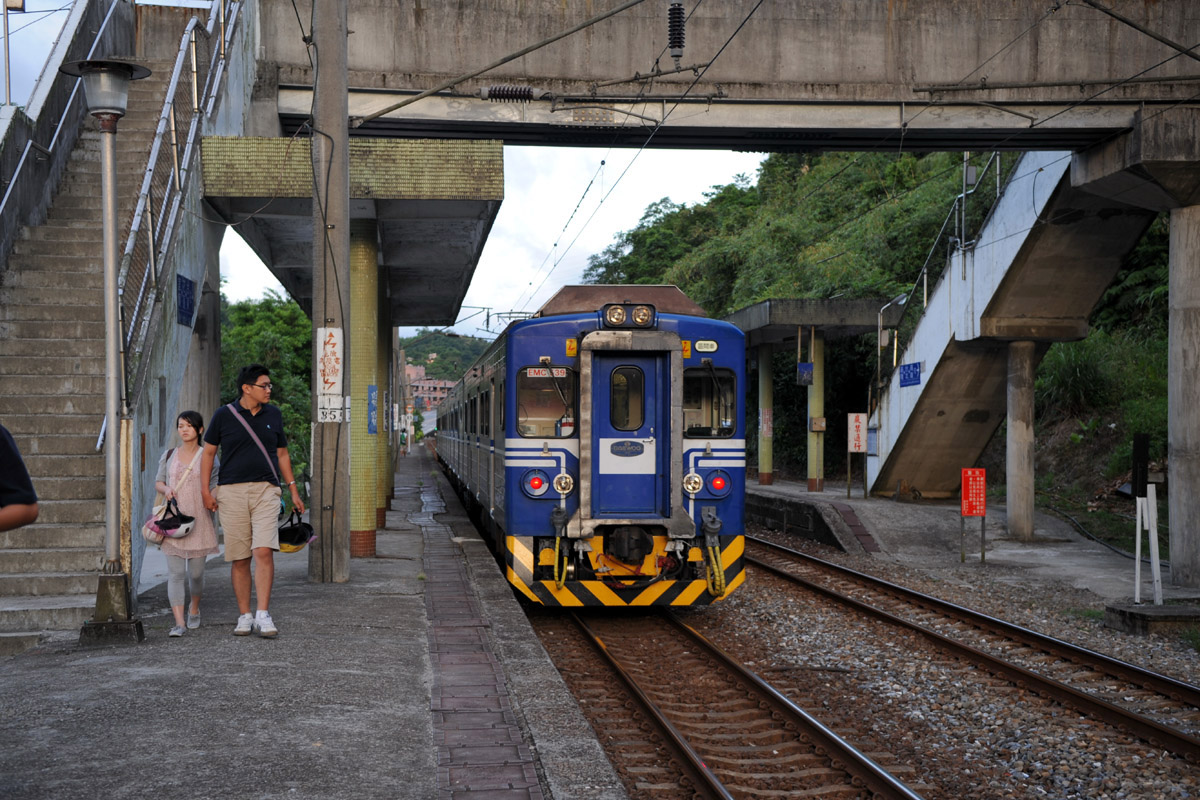 Taiwan Railway Administration NuanNuan Station platform and EMU539